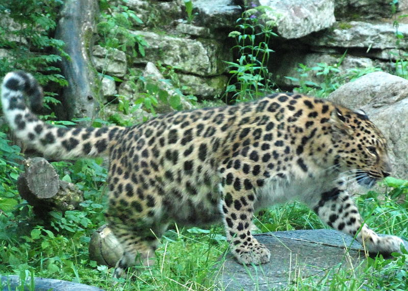 Amur leopard Darla in Tallinn Zoo